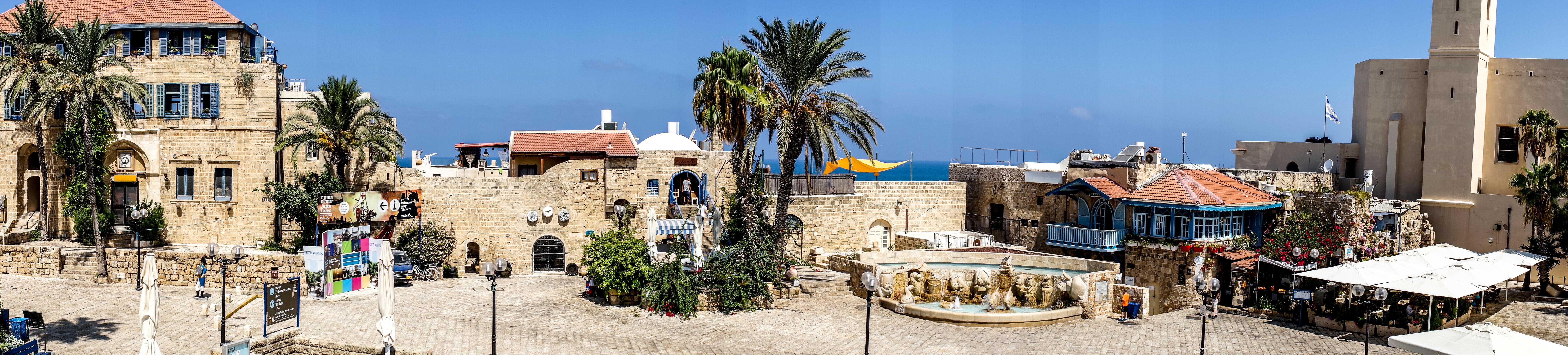 Old Jaffa, Geography of Israel